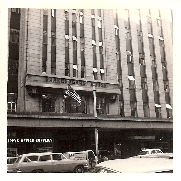 United States Information Service library, Shakespeare House, Johannesburg, South Africa.